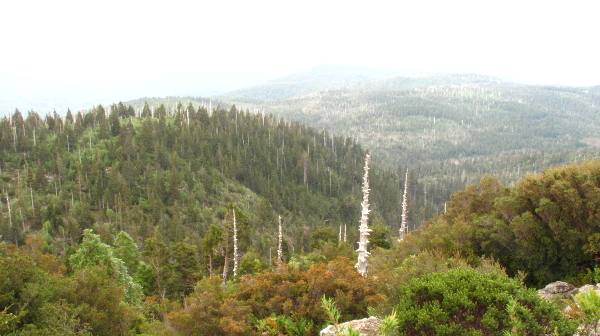 View of Fitzroya cupressoides forests in the Cordillera Pelada (mountain range), in Los Ríos Region, Chile. In the Cordillera de la Costa System (Chilean Coast Ranges).